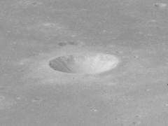 Oblique view of Rosse crater, Mare Nectaris, on the moon, facing south.